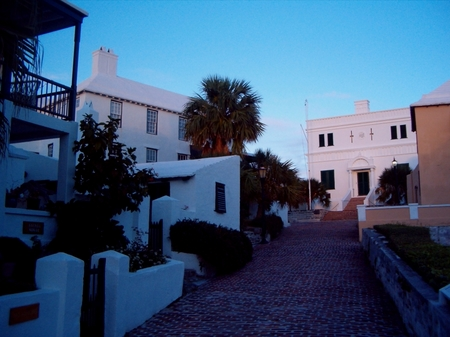 The State House, in Saint George's, Bermuda, was the first purpose-built home of the Bermudian parliament. The building was designed along Italian lines, due to the assumption of similar latitudes and climates. It's flat, limestone roof proved highly problematic, given Bermuda's heavy rainfall. Bermudians subsequently developed a traditional roof design, evident on the surrounding, later buildings, which used angled rooves of stepped, limestone slates, whitewashed with a lime-based coating, to collect rainwater for consumption. The State House was erected in en:1620. The House of Assembly, originally the only house of the colonial parliament, which had also been formed in 1620, first meeting at Saint Peter's Church, occupied the State House until the capital was moved to Hamilton in en:1815. Since then, the State House has been rented to a masonic lodge. The Freemason's pay a token, annual rent of one peppercorn, and the ceremony in which this is presented has developed into an elaborate